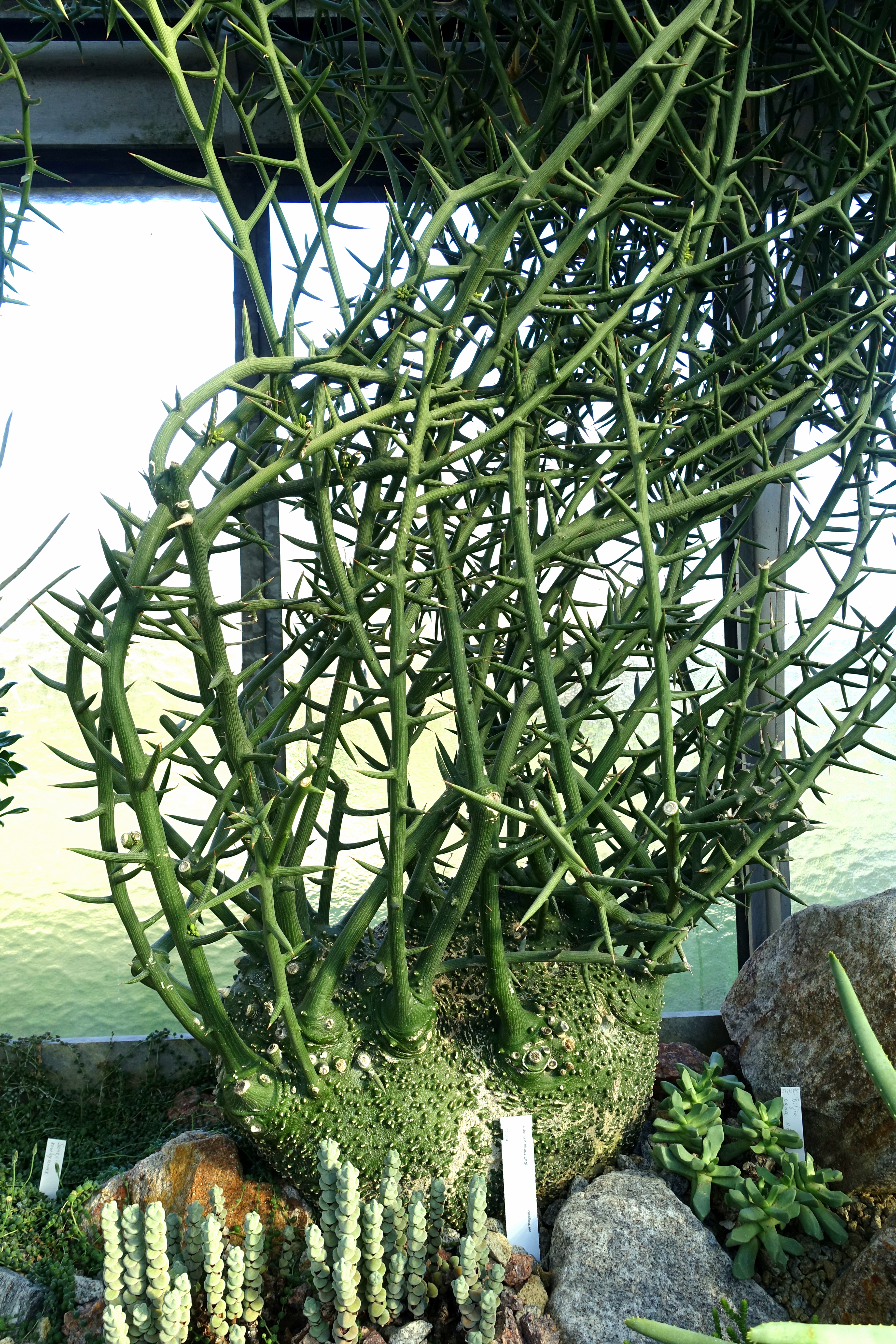 Botanical specimen in Wilhelma Zoo - Stuttgart, Germany.